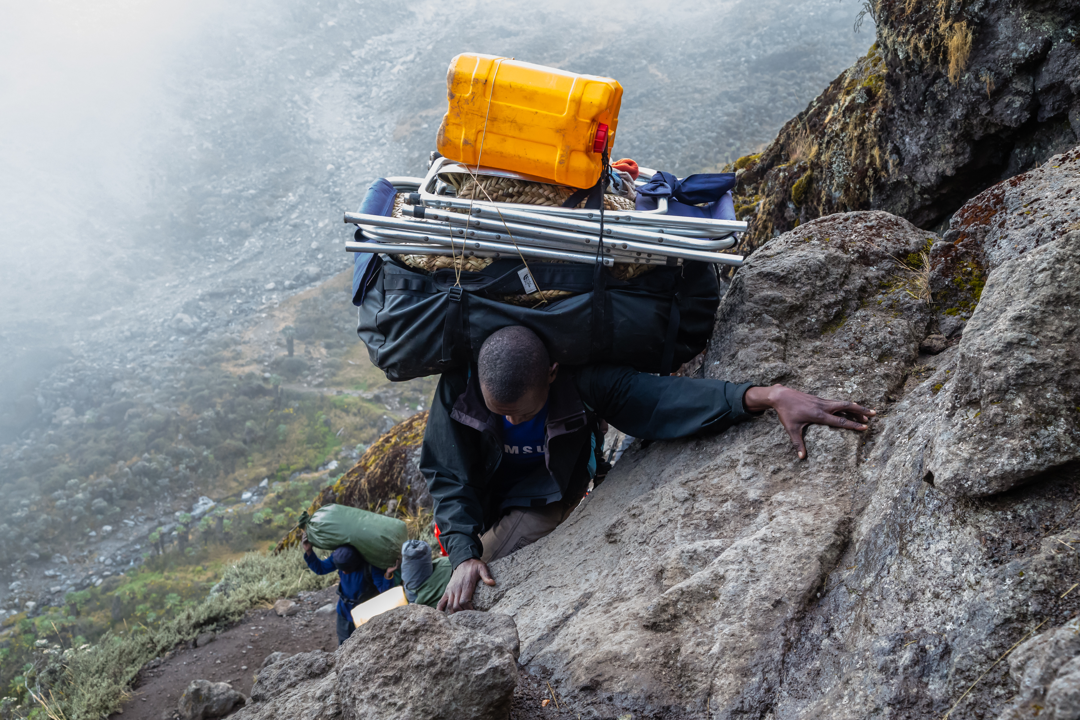 This is an image of "African people at work" from Tanzania